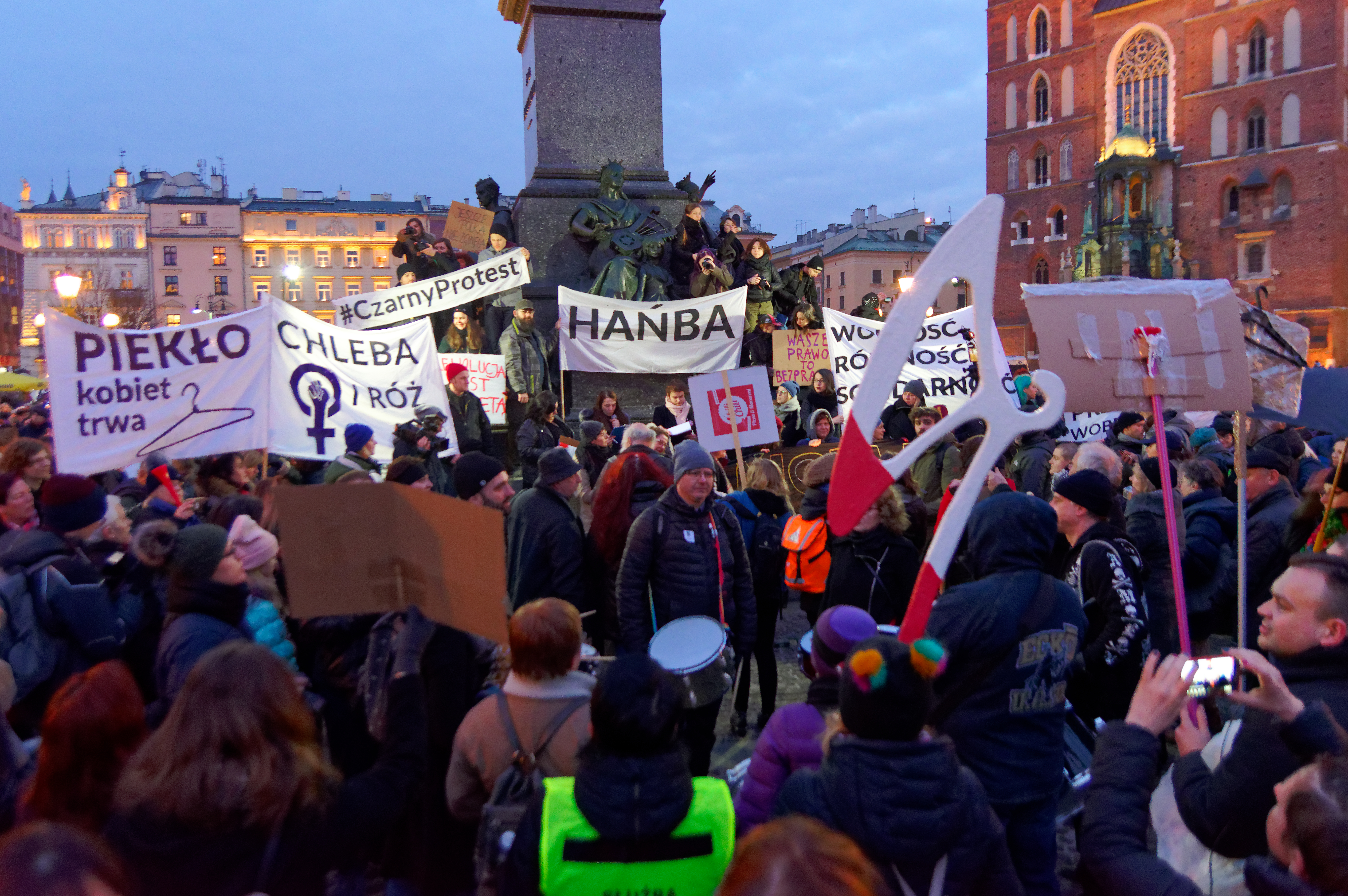 Black Friday. Protest against the anti-abortion law in Krakow